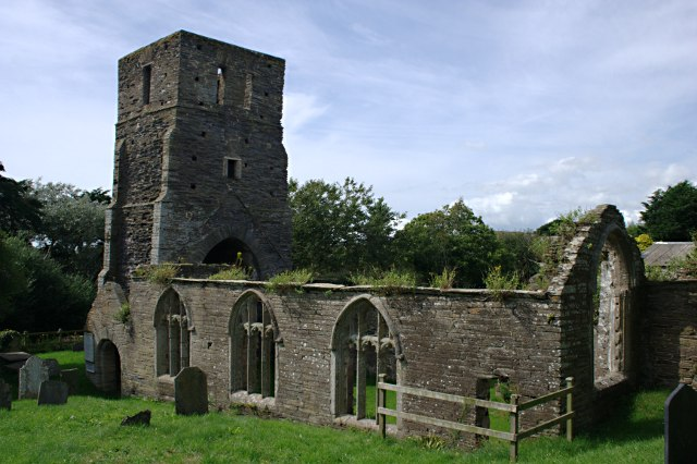 The Ruined Church at South Huish, near to Galmpton, Devon, Great Britain. This church was abandoned in 1867 and is now leased to the Friends of Friendless Churches.